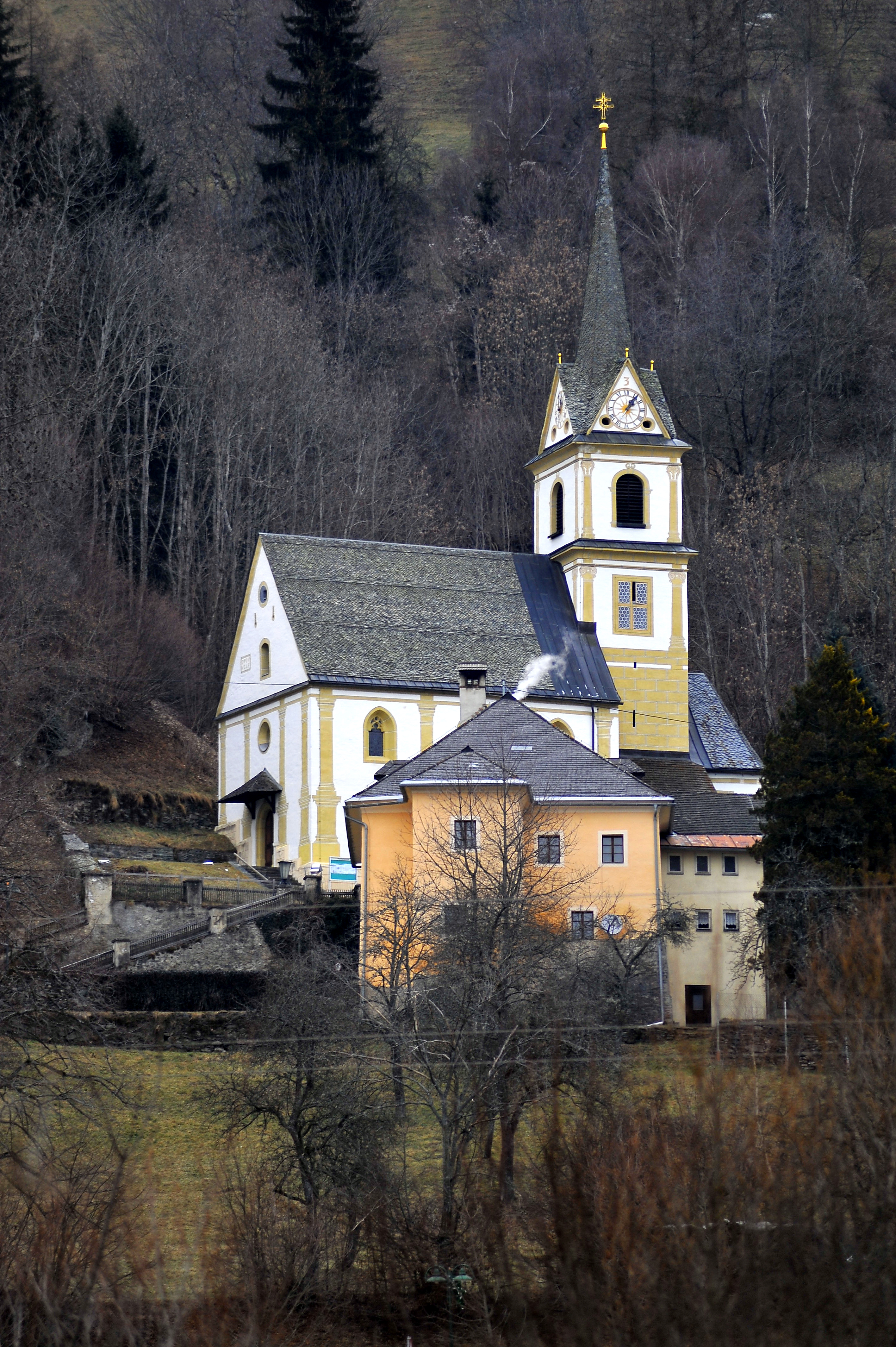 Parish church Saint Urban, municipality Sankt Urban, district Feldkirchen, Carinthia, Austria, EU